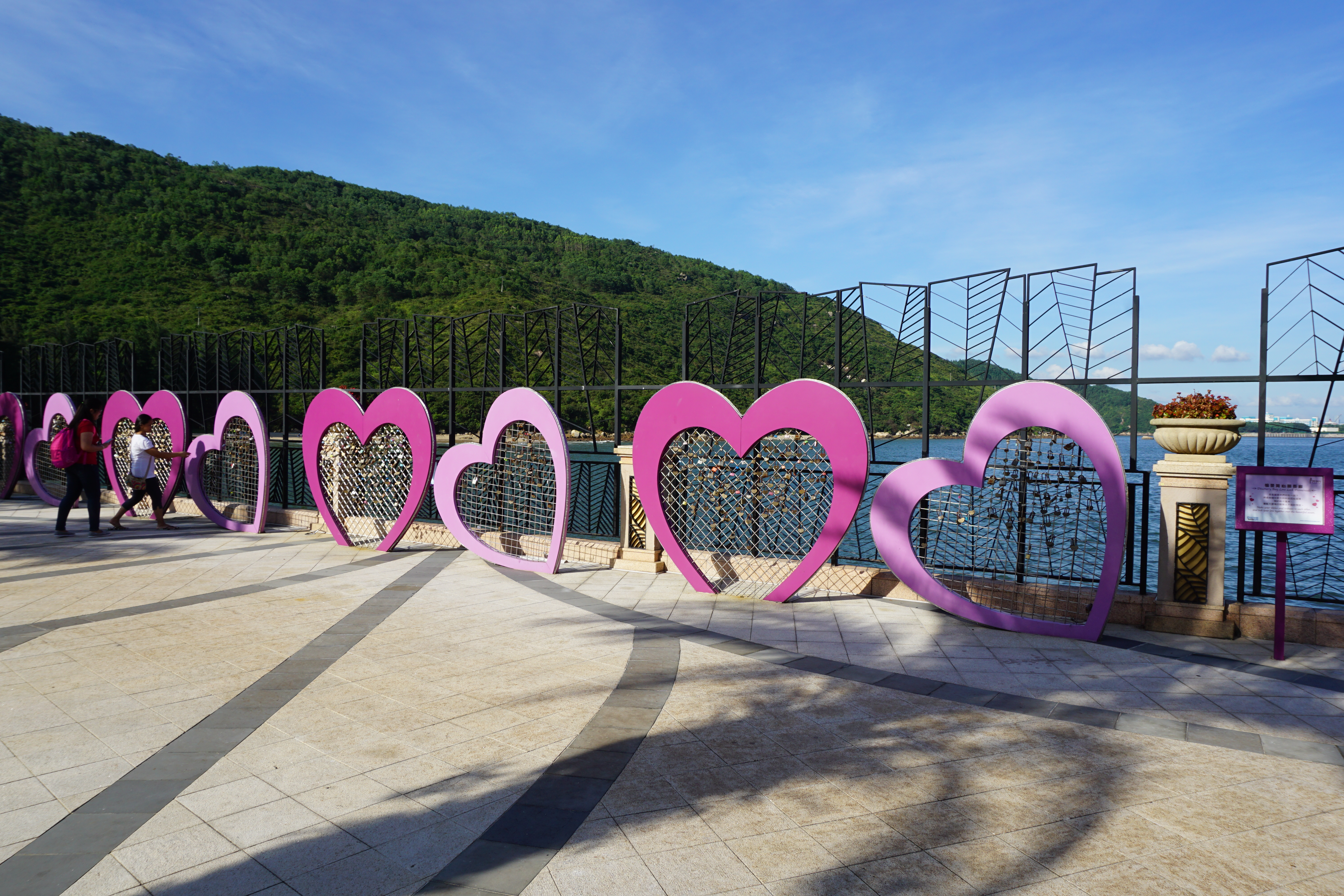 Love Lock Promenade in Discovery Bay, Hong Kong.